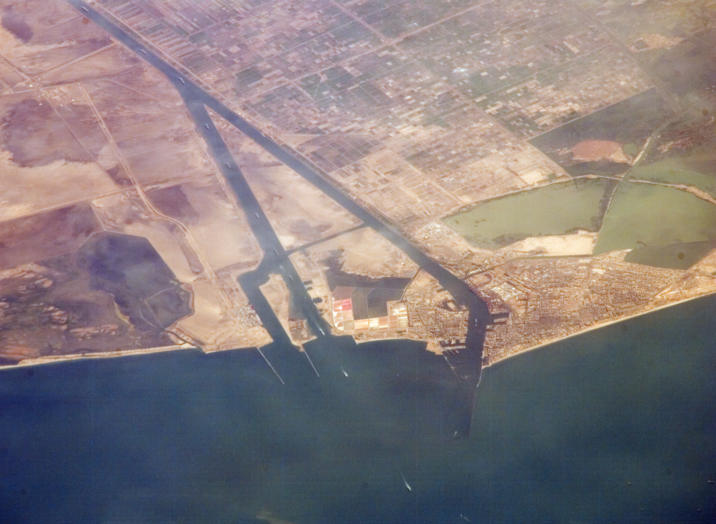 Port Said and the entrance to the Suez Canal. Photographed from the International Space Station. Ship Traffic on the Suez Canal, Egypt This astronaut photograph captures a northbound convoy of cargo ships entering the Mediterranean Sea from the Suez Canal in Egypt (leftmost canal branch at image center). The Suez Canal connects Port Said on the Mediterranean Sea with the port of Suez on the Red Sea, and provides an essentially direct route for transport of goods between Europe and Asia. The Canal is 163 kilometers (approximately 100 miles) long, and 300 meters (almost 1,000 feet) wide at its narrowest point—wide enough for ships as large as aircraft carriers to traverse it. Transit time from end to end is 14 hours on average. The Canal was built under the direction of Ferdinand de Lesseps of France using primarily Egyptian labor, and it was opened to traffic in 1869. Subsequent wars and skirmishes have passed control of the Canal to various powers including the United Kingdom, Egypt, Israel, and the United Nations. A multinational observer force including the United States, Israel, and Egypt currently oversees the Canal. This is an oblique image of the canal, meaning it has been taken at an angle. Astronauts and cosmonauts on the International Space Station (ISS) can photograph the part of the Earth directly below the station as it passes overhead, or they can photograph different parts of the globe. When they photograph different parts of the globe, they take pictures at an angle to provide a sense of perspective. In this case, the ISS was located above the eastern coast of Cyprus, and the astronaut was looking at Egypt to the southwest. Regions of reduced clarity in the image result from thin cloud cover. The day this image was taken, the total number of Earth photographs acquired by astronauts aboard the ISS passed 200,000.